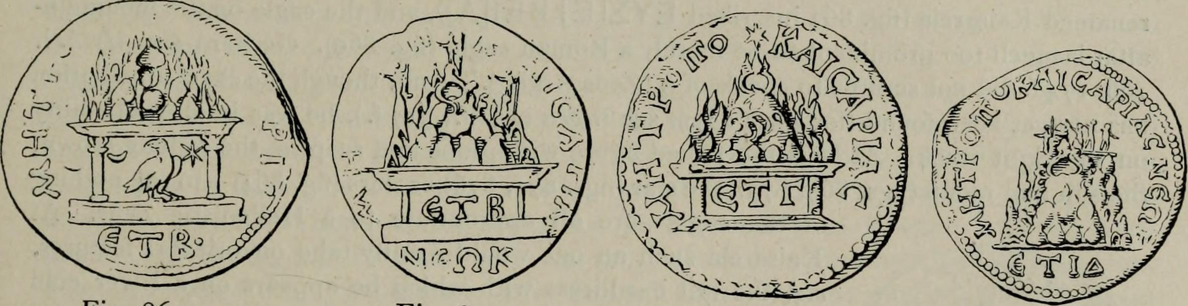 Title: Zeus : a study in ancient religion Year: 1914 (1910s) Authors: Cook, Arthur Bernard, 1868-1952 Subjects: Zeus (Greek deity) Cults Sun worship Classical antiquities Folk literature Publisher: Cambridge (Eng.) The University Press Text Appearing Before Image: Fig. 868. Text Appearing After Image: Fig. 869. Fig. 870 Fig. 871. Fig. 872.